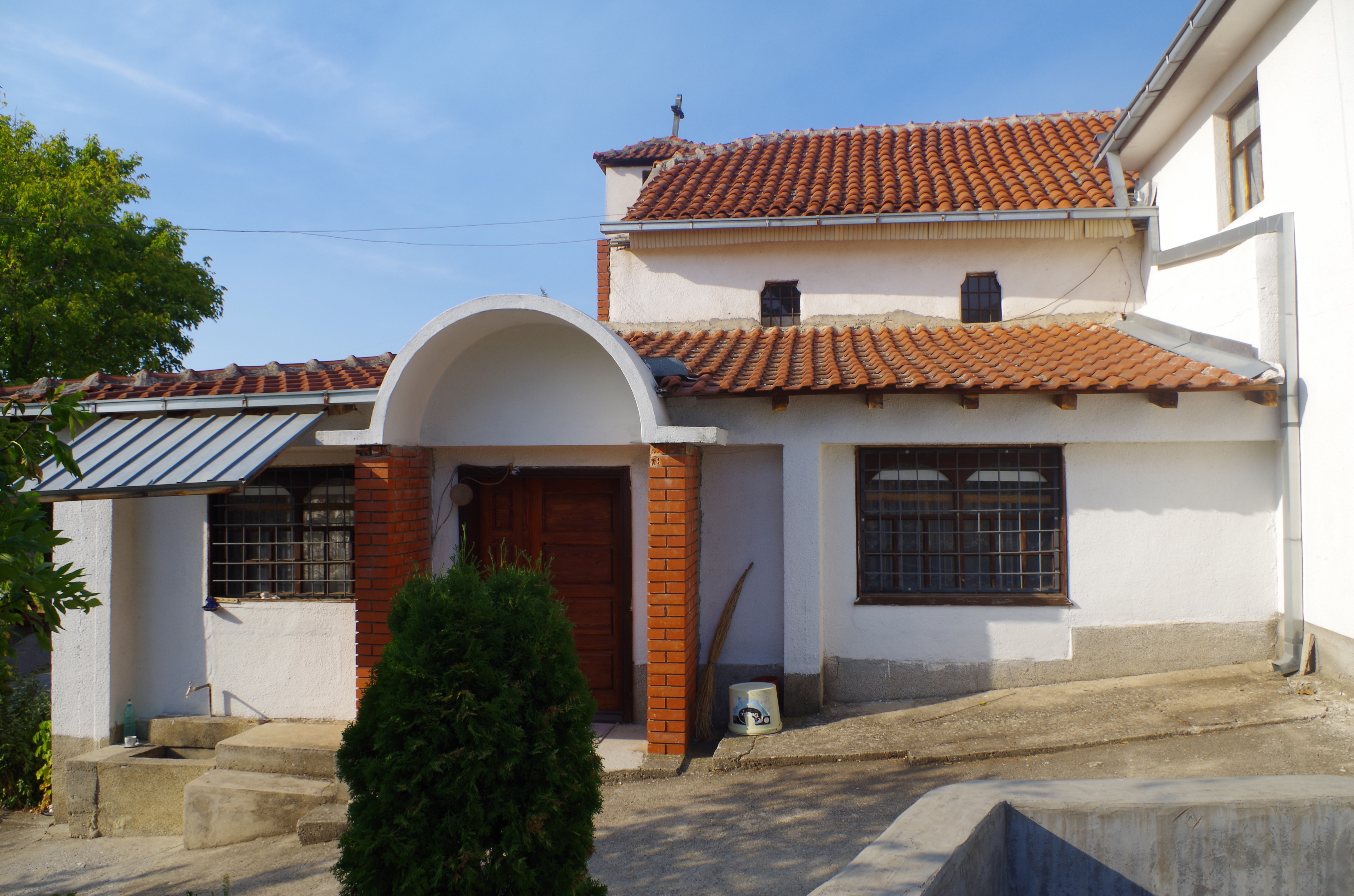 St. Demetrius Church in the village of Glišiḱ